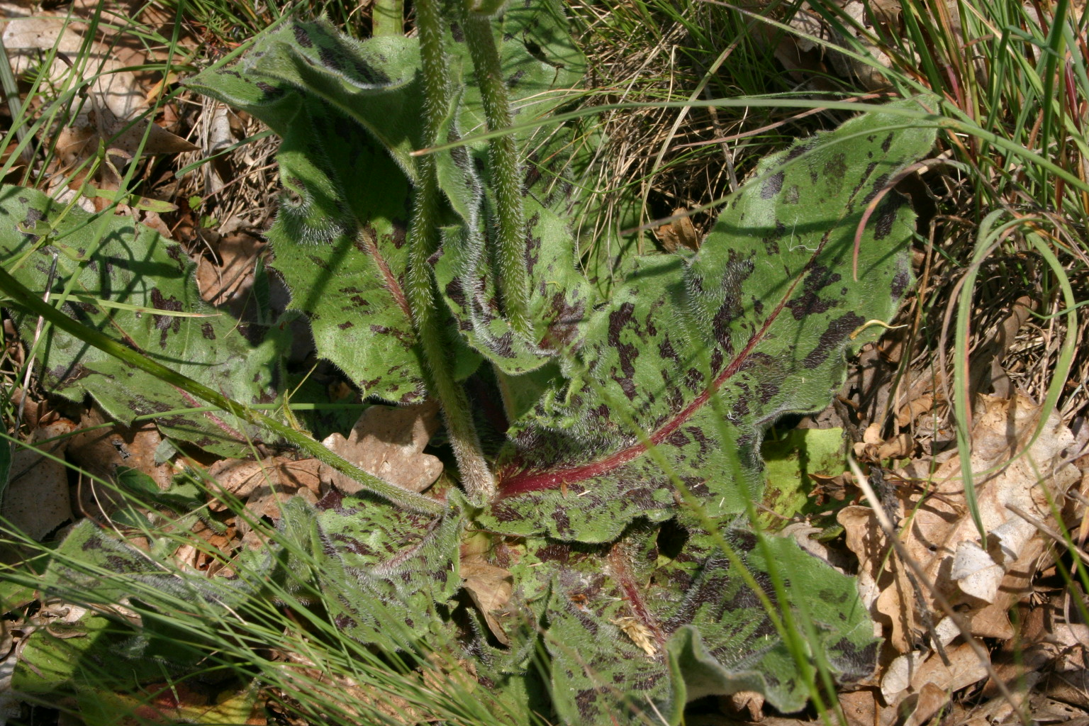 Hypochaeris maculata